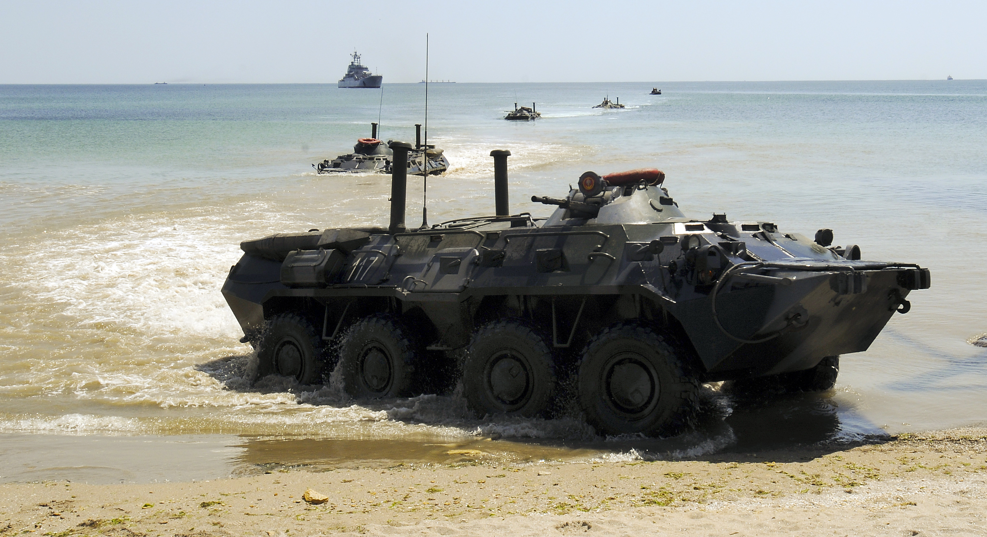 CHABANKA, Ukraine (June 15, 2011) Ukrainian armored personnel carriers arrive ashore during an amphibious beach landing demonstration as part of exercise Sea Breeze 2011. Air, land and naval forces from Azerbaijan, Algeria, Belgium, Denmark, Georgia, Germany, Macedonia, Moldova, Sweden, Turkey, Ukraine, the United Kingdom and the United States are participating in Sea Breeze, the largest multinational maritime exercise this year in the Black Sea, June 6-18. The exercise is co-hosted by the Ukrainian and U.S. Navies. (U.S. Navy photo by Mass Communication Specialist 2nd Class Stephen Oleksiak/Released)